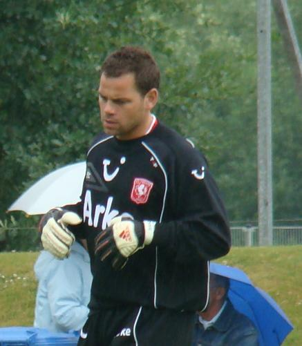 Image of the FC Twente goalkeeper Sander Boschker